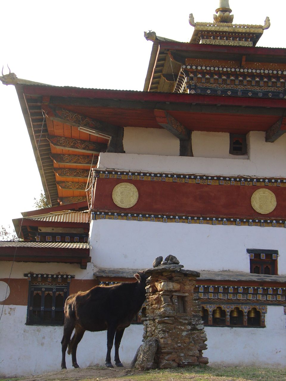 Chimi Lhakhang (Divine Madman) Monestary (built 1500), in Bhutan.